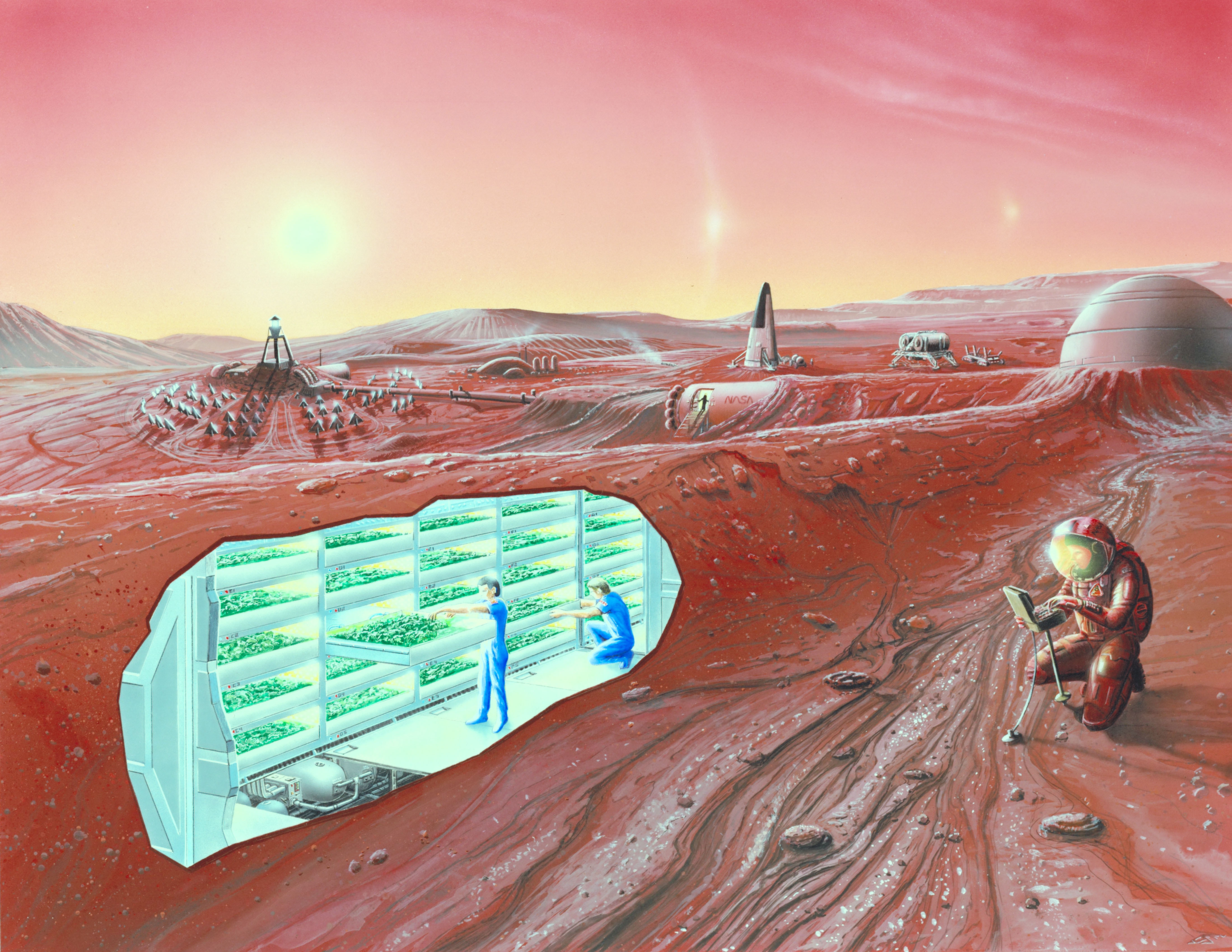 Artist impression of a Mars settlement with cutaway view.